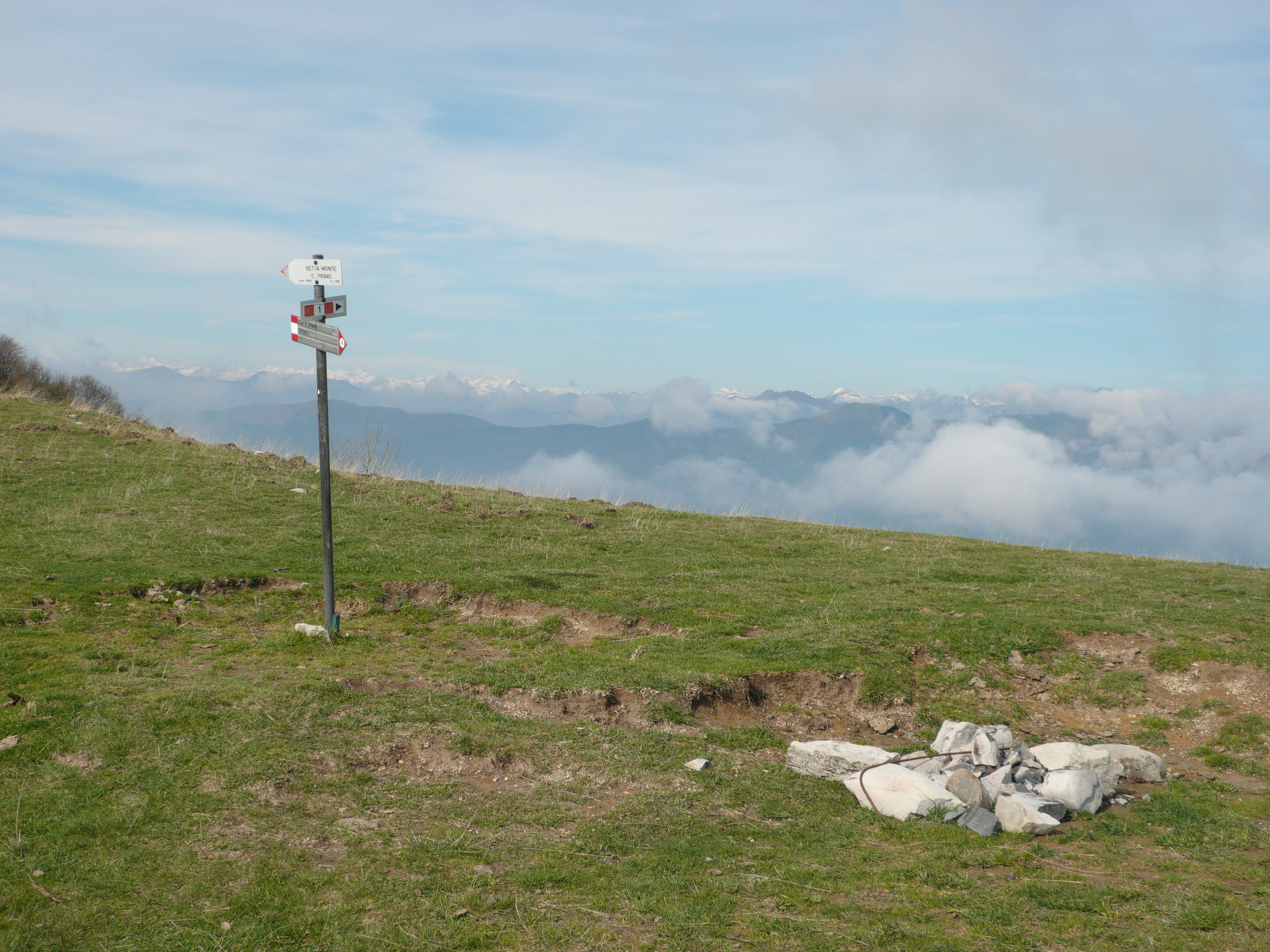 On the hiking path above Lago di Como